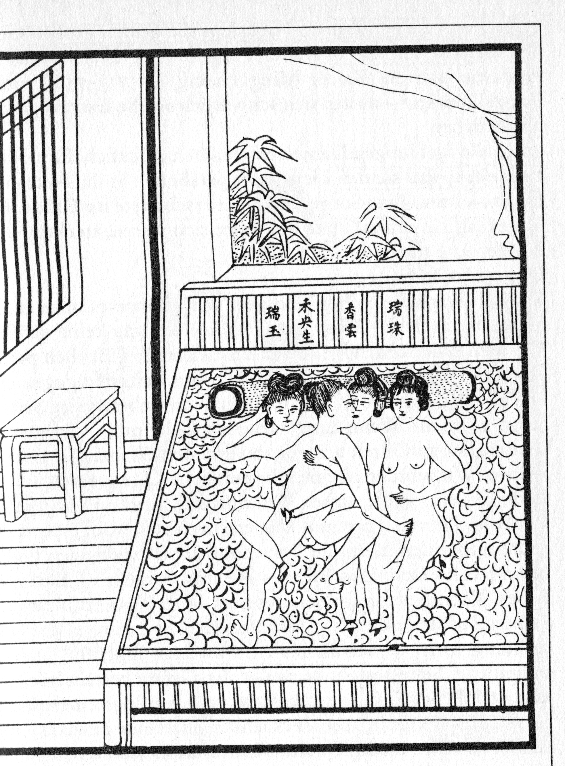 woodcut for 1894 edition of Rouputuan